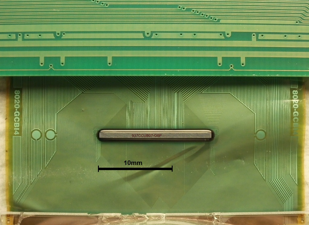 chip-on-board / face down mounted TFT driver integrated circuit sitting on the flexible connection between PCB and screen glass. The finest PCB traces are not visible.